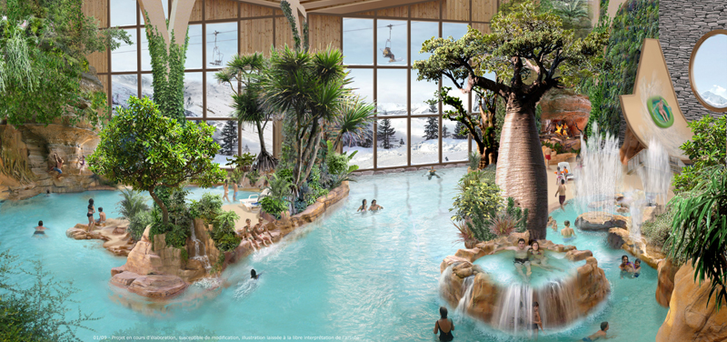 The new tropical water park in Avoriaz.